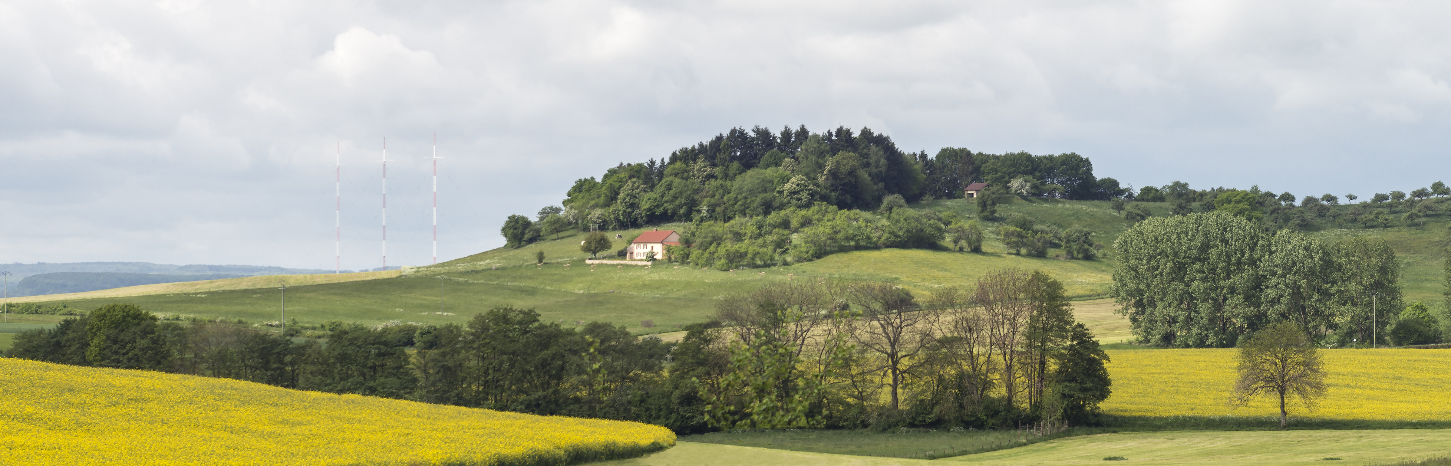 Luxembourg, municipality of Bech: Mont Saint-Jacques as from NE. At the left: the RTL antennas at Beidweiler.